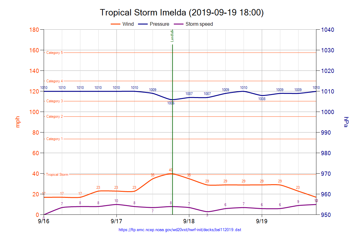 Tropical Storm Imelda chart 2019-09-19 1800